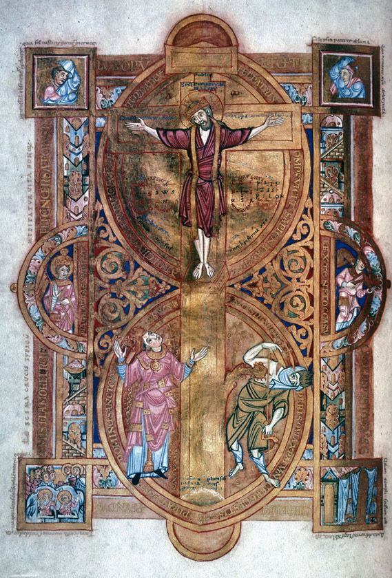 Uta Codex, Evangeliary Symbolic Crucifixion of Christ ca. 1020 Ottonian Manuscript Munich, Bayerisches Staatsbibliothek Ms.Clm.13601, folio 3v